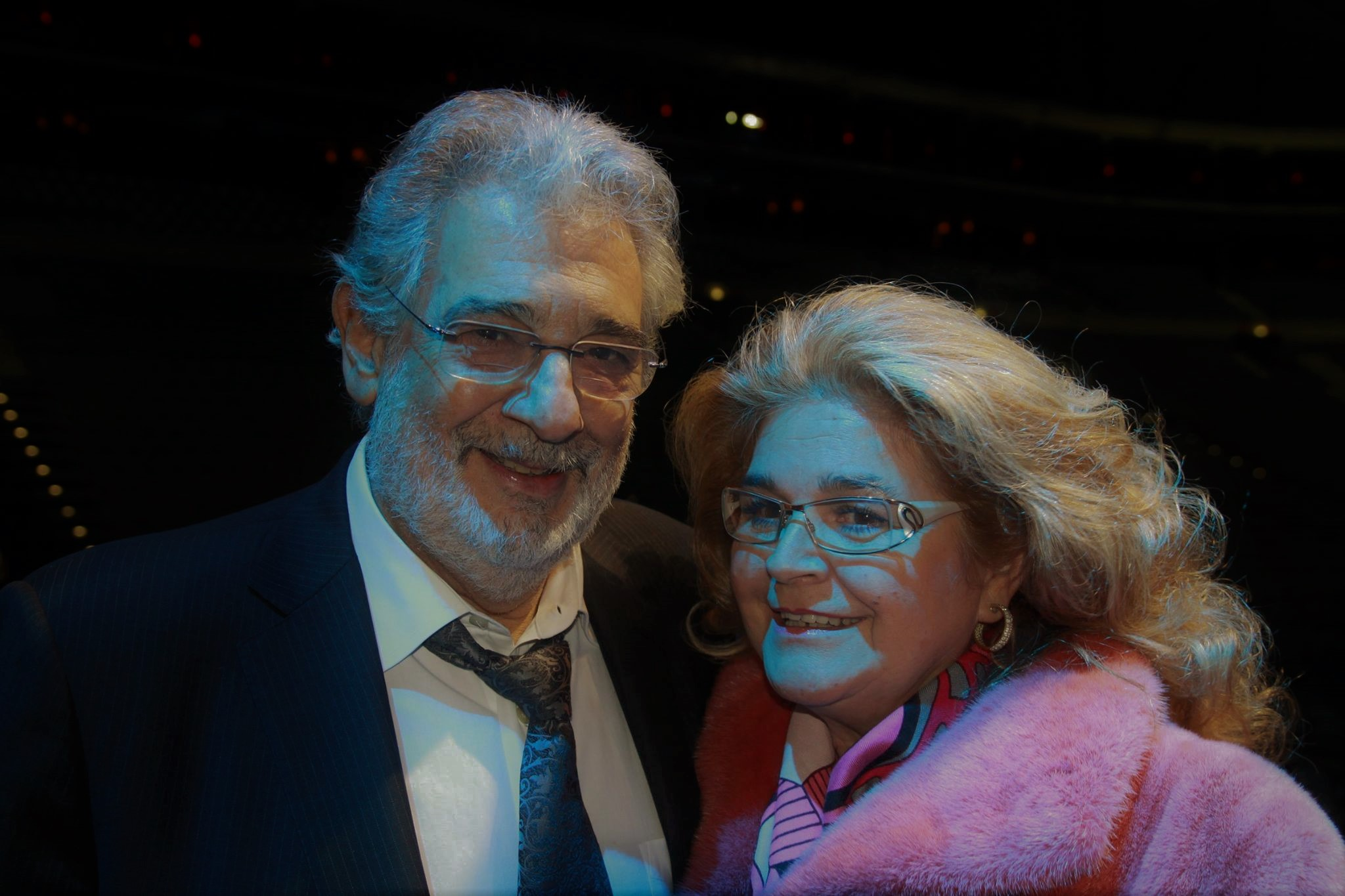 Czech operatic soprano Gabriela Benackova with her long time friend and colleague Plácido Domingo in Prague.